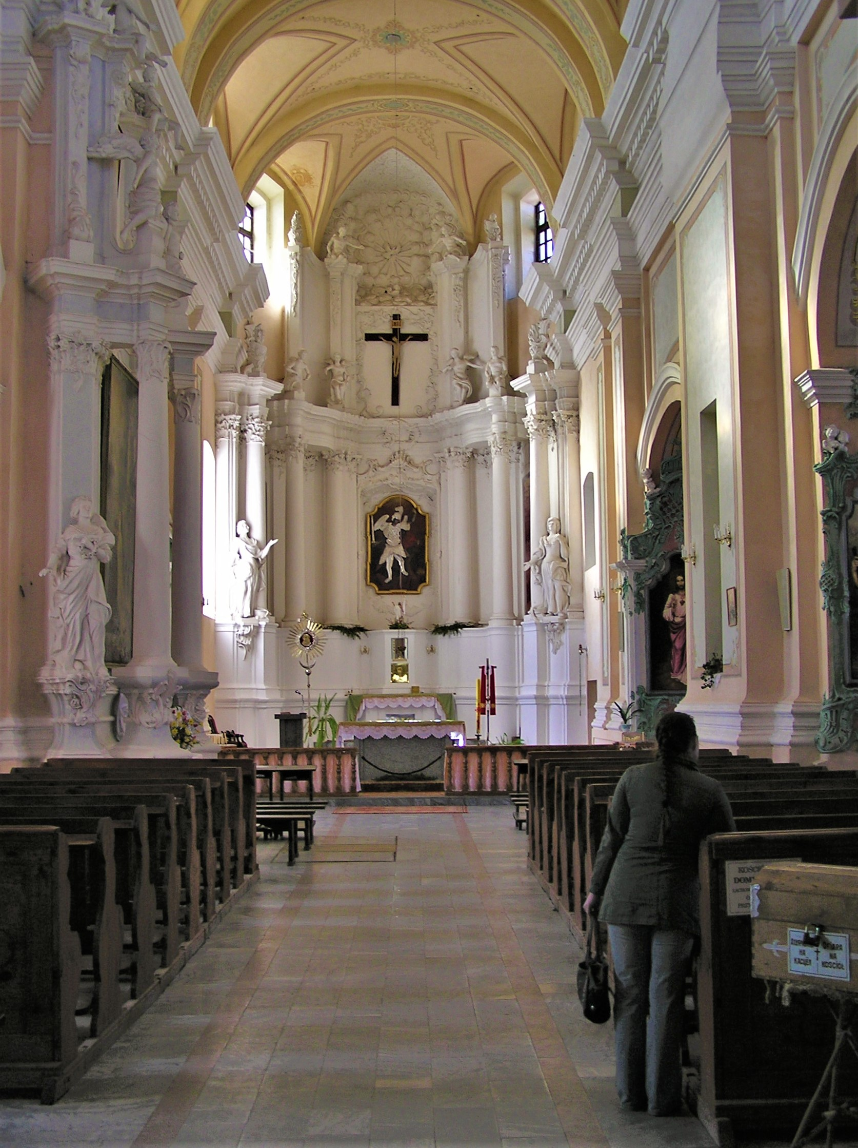 Catholic Church of St. Michael the Archangel in Navahradak (interior)